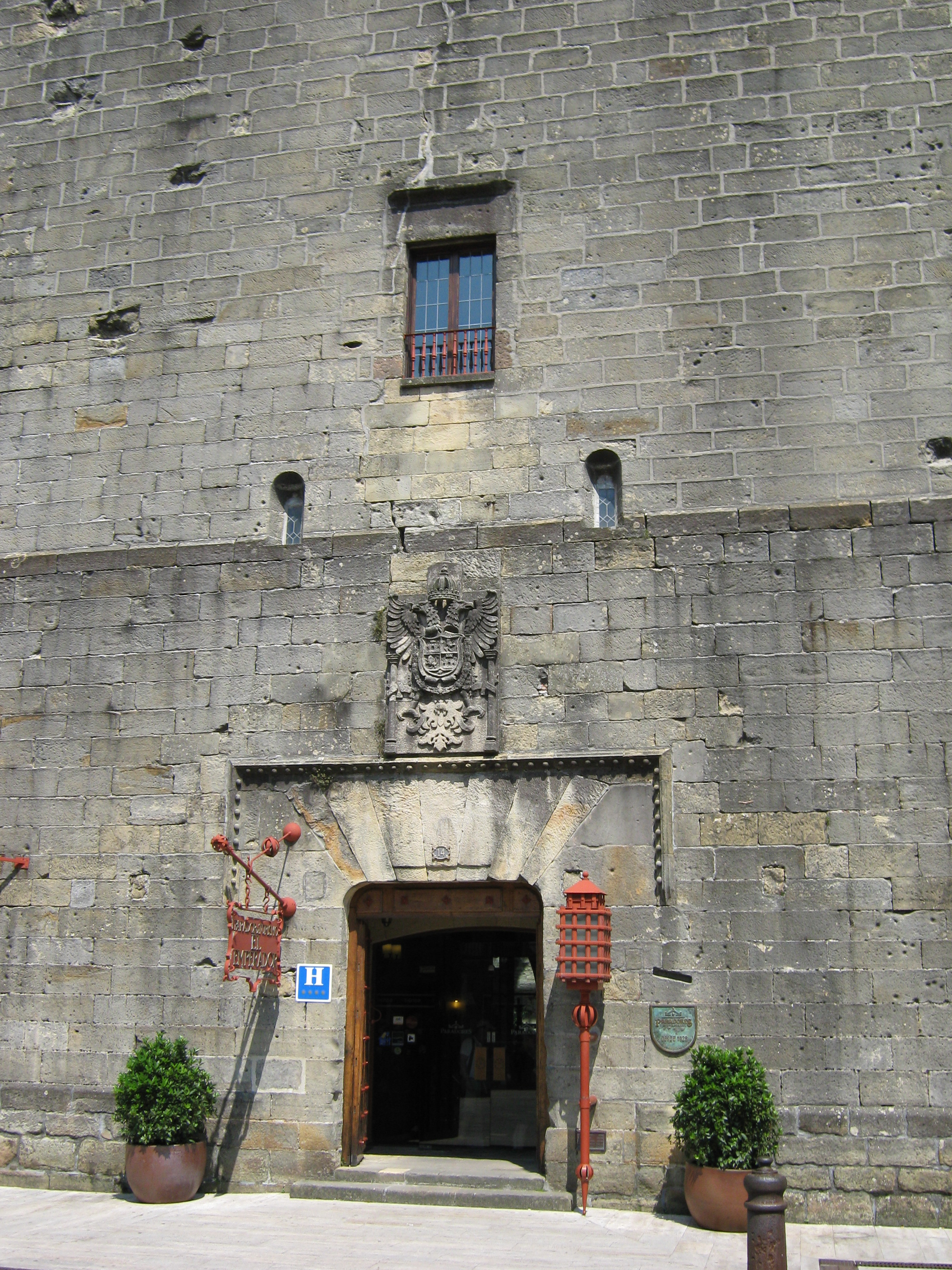 Entrance of parador Carlos V (former Castle, built 10th c., rebuilt 16th c.) in Hondarribia (Basque country, Spain)